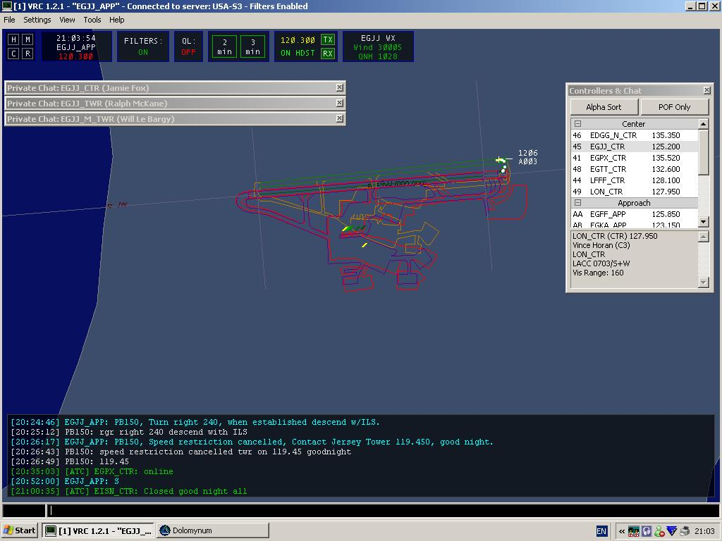 Using Virtual Radar Client, one of the three main controller clients for VATSIM. The sector file is focussed on Jersey (EGJJ), and the radar mode is set to "Park Air", the mode used for approach control in the UK.